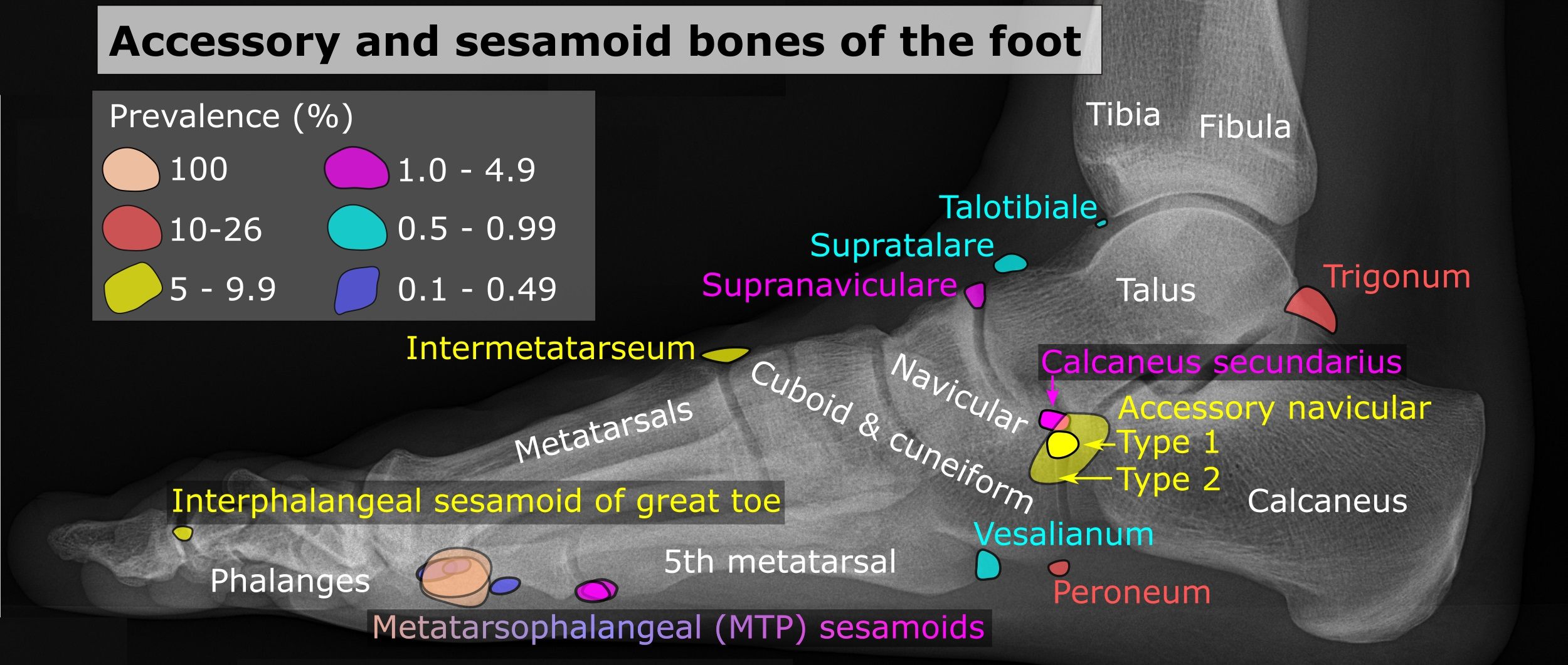 X-ray of the right foot by lateral projection, with areas indicating where the most common accessory and sesamoid bones would be, colored by their prevalences, and with representative shapes.